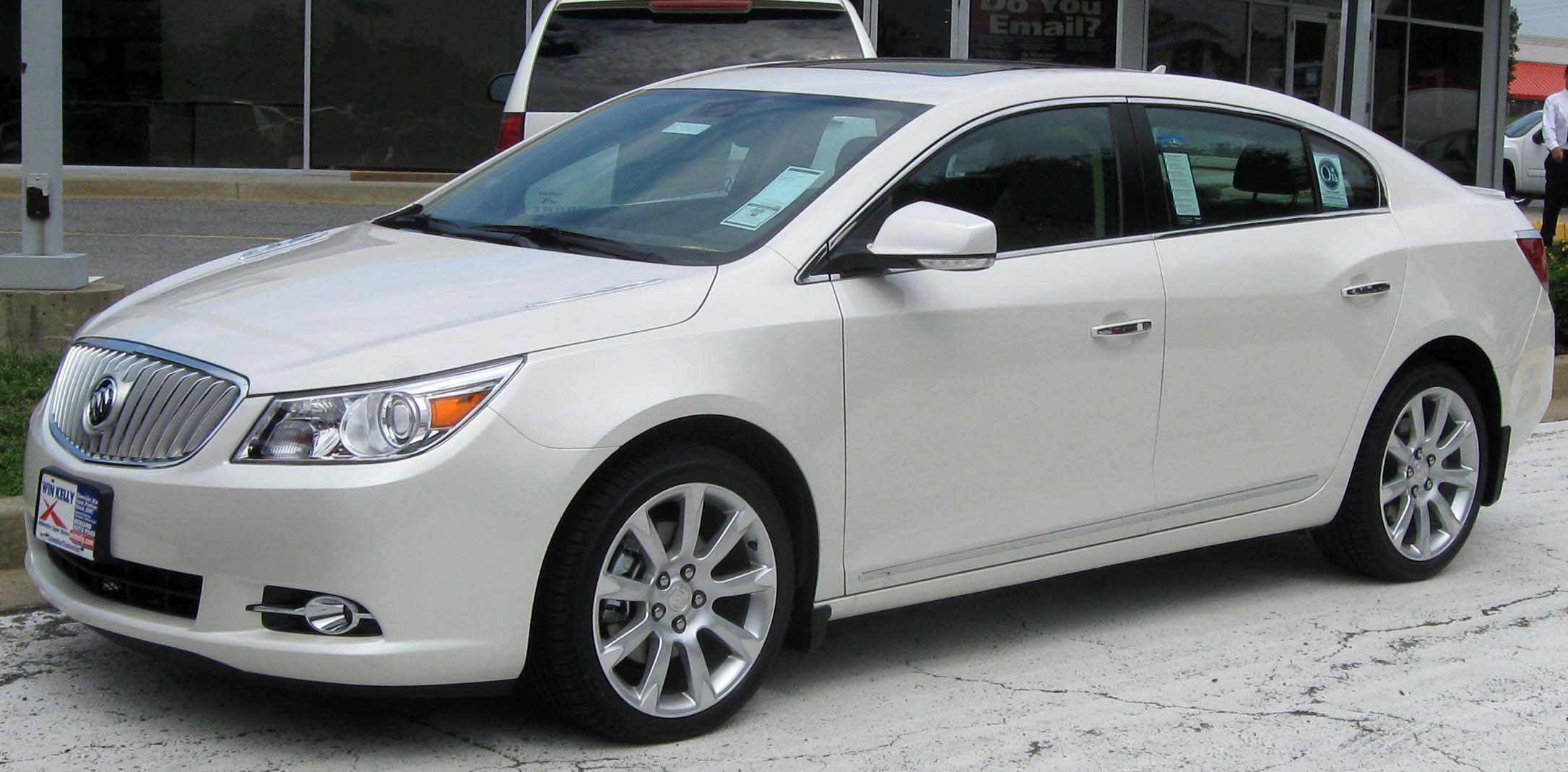 2010 Buick LaCrosse CXS photographed in Clarksville, Maryland, USA.